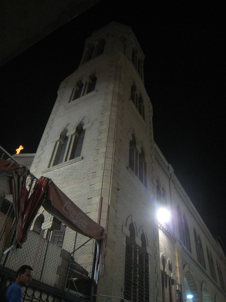 St.Mark Campanile, Cairo